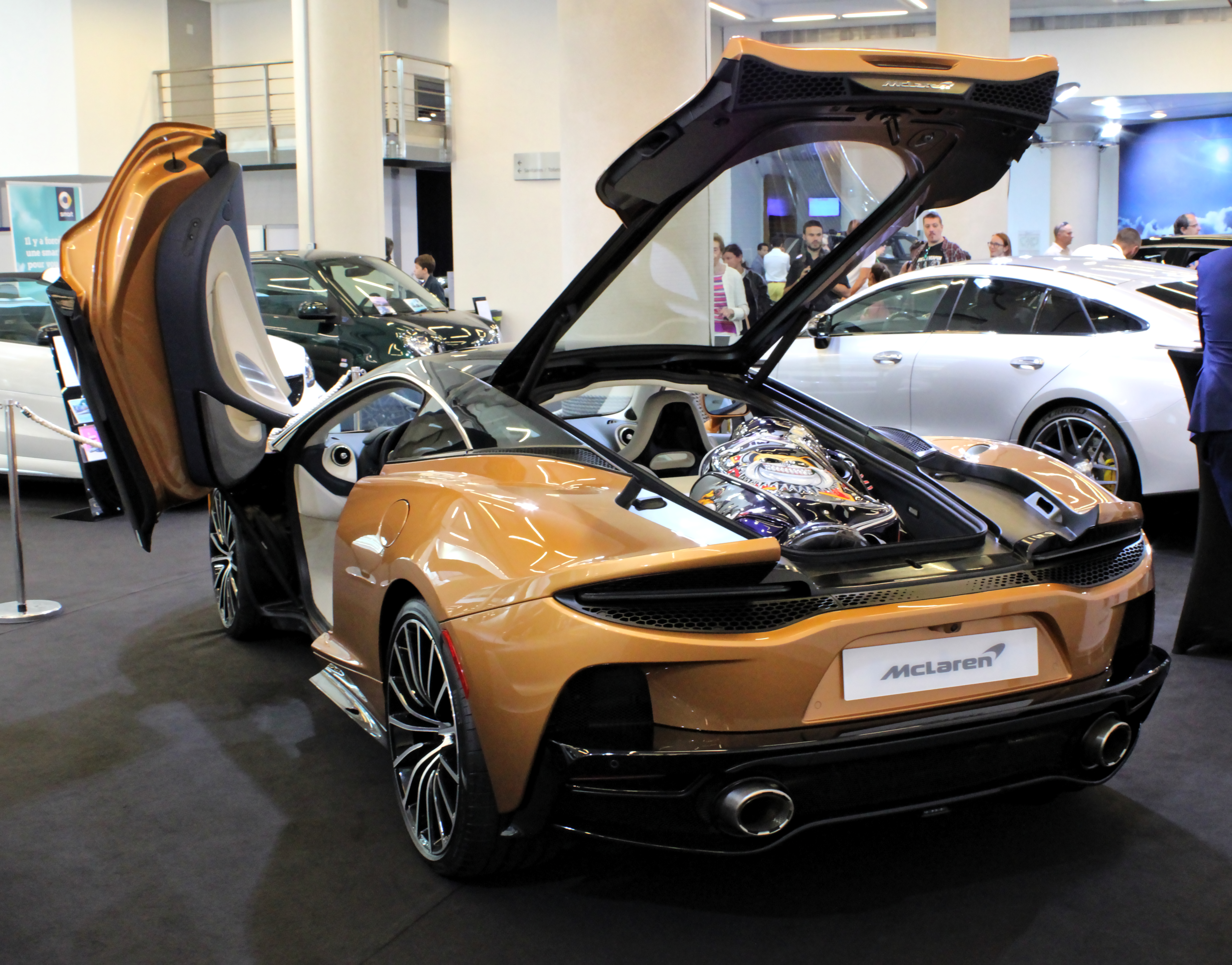 McLaren GT at Top Marques 2019